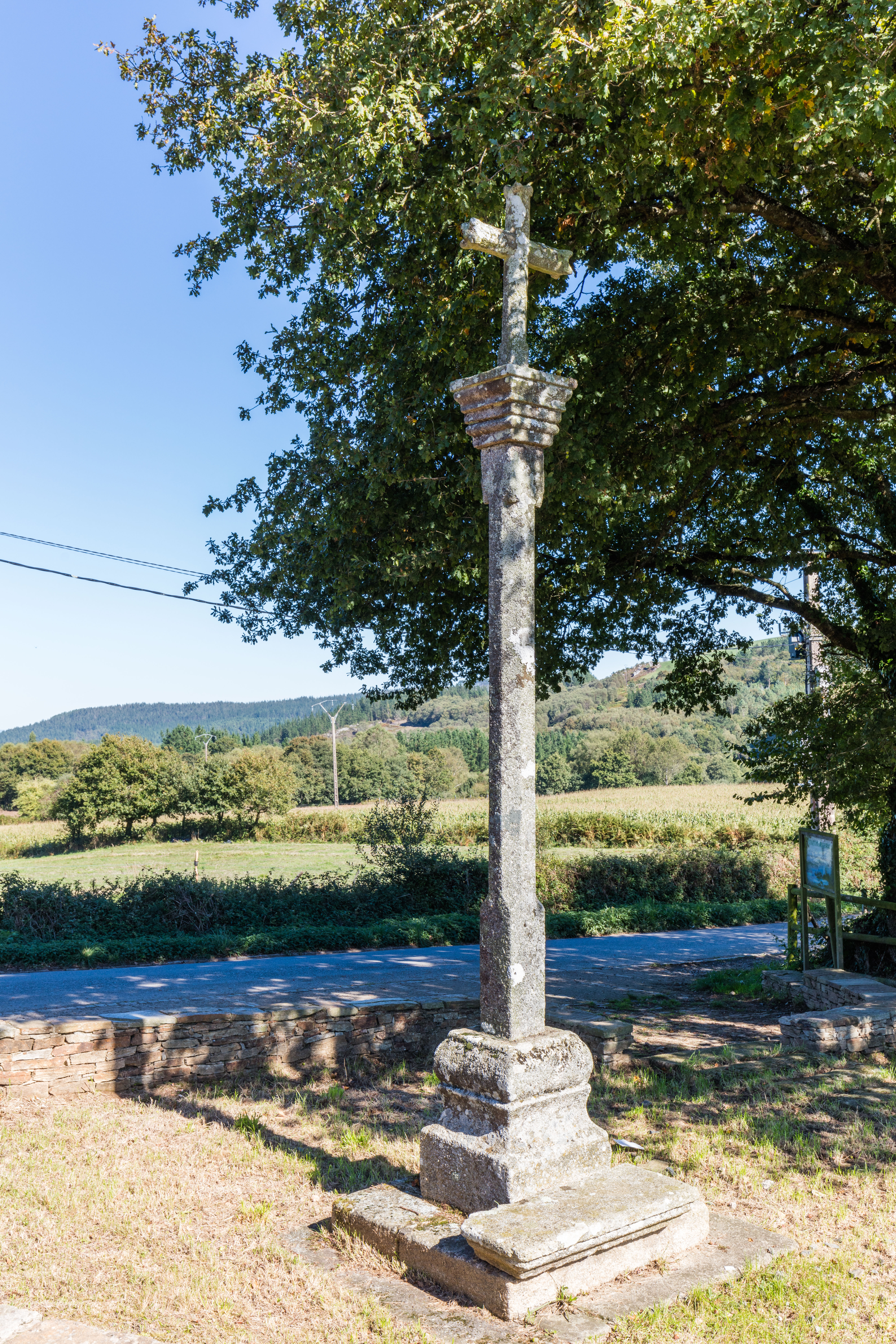 Calvary in St James's Way, Lugo, Spain